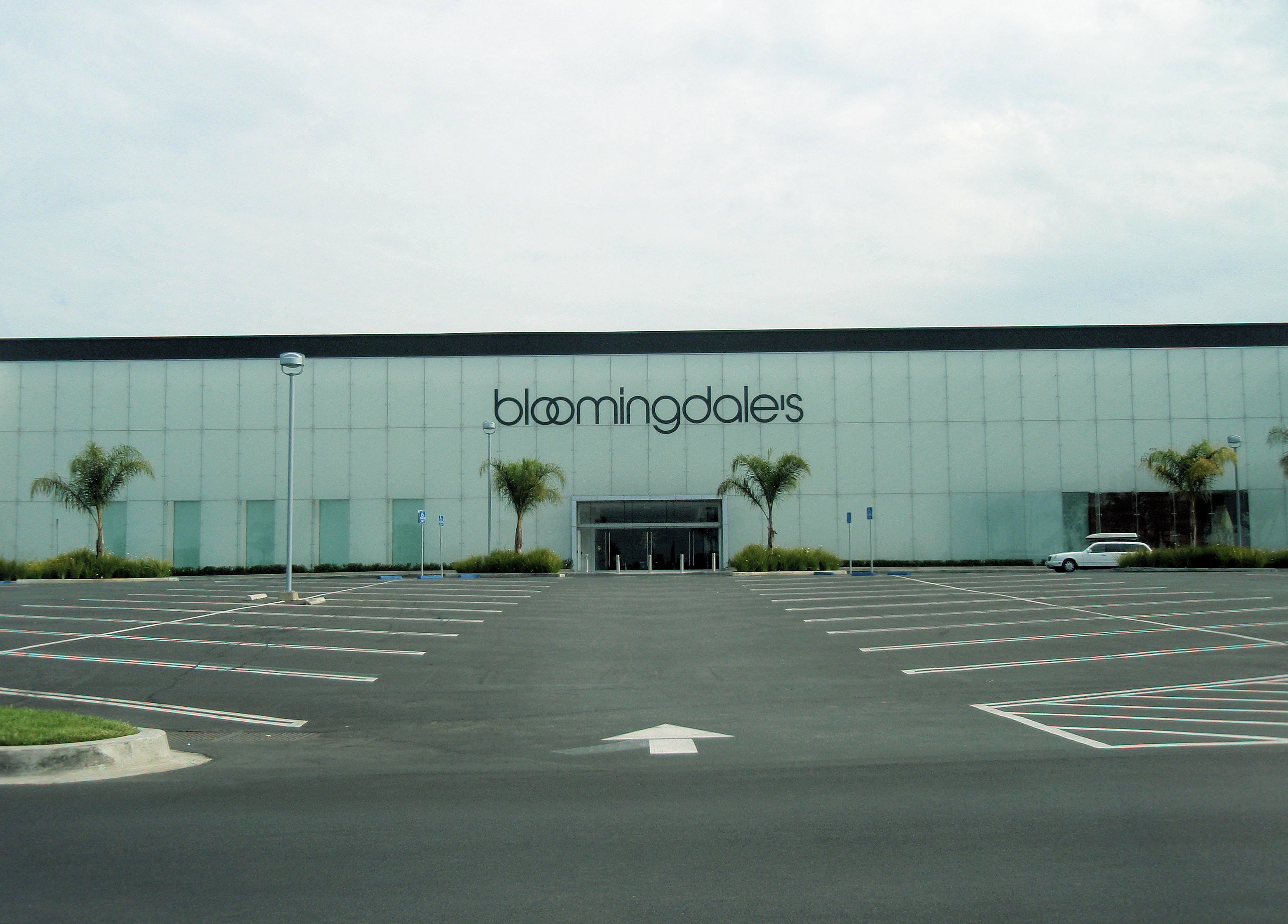 The Bloomingdale's department store at South Coast Plaza in Costa Mesa.